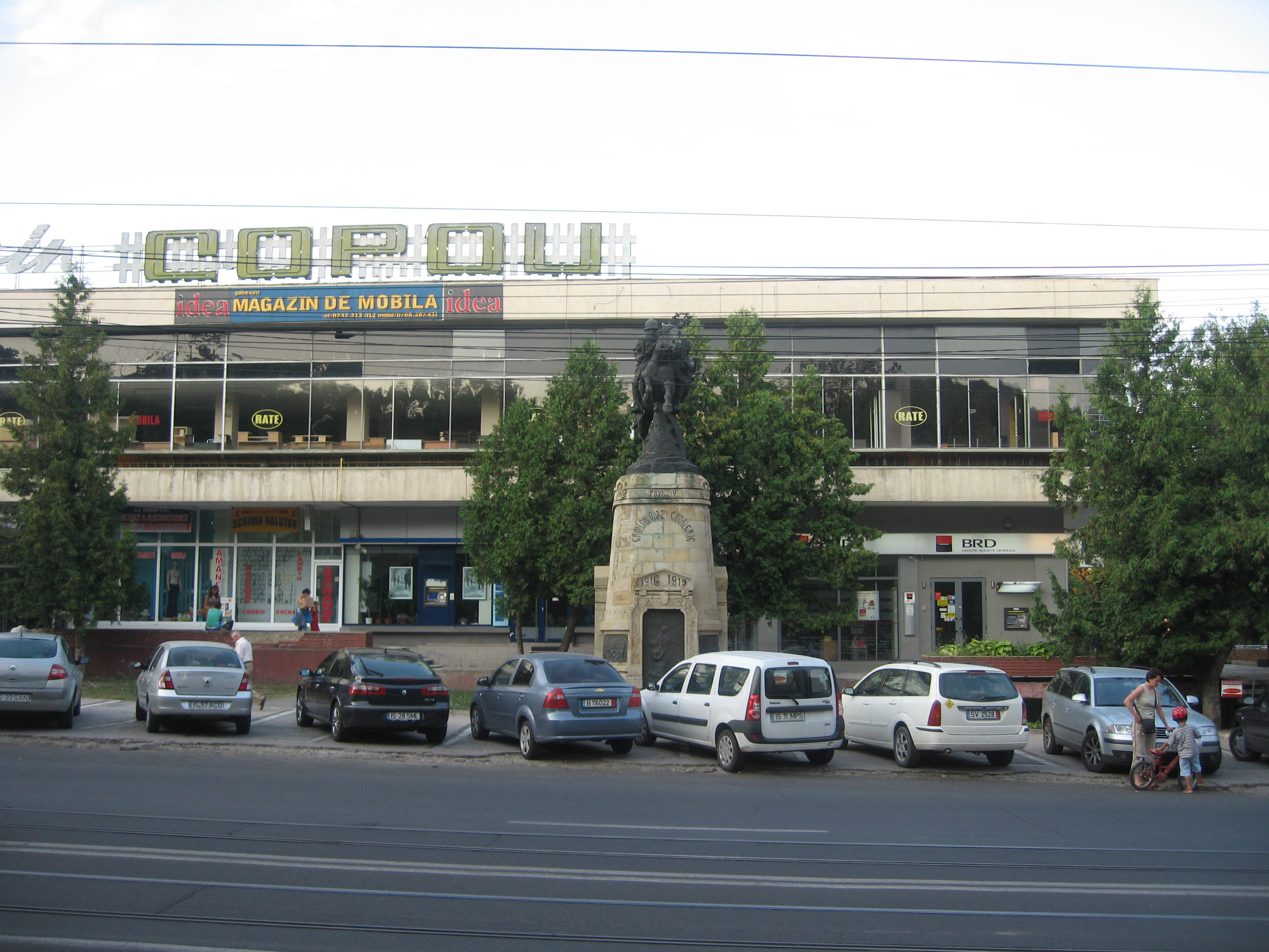 Statuia Cavaleristului în atac din Iaşi